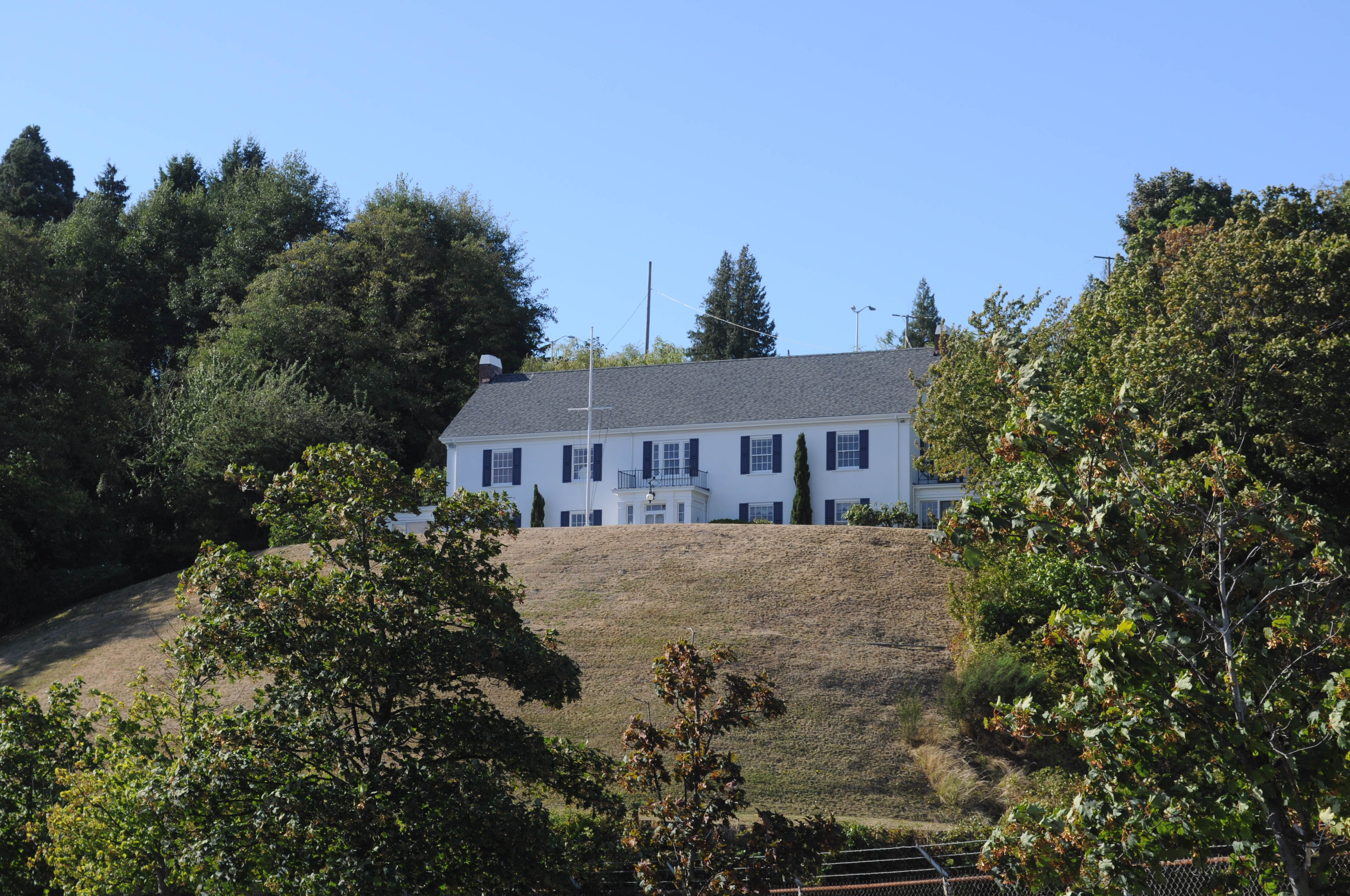 Admiral's House, 2001 W. Garfield (on the South Magnolia Bluffs), Seattle, Washington, USA. The building is an official Seattle Landmark.